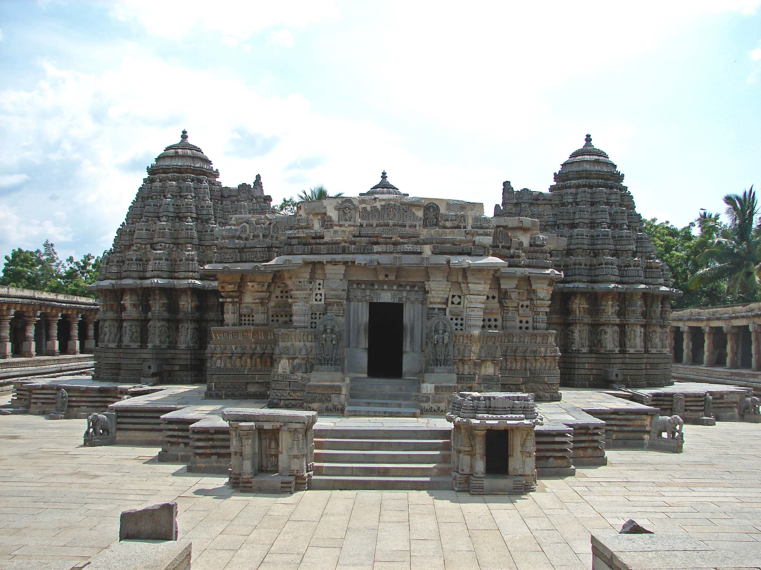 Photograph taken by me (Dineshkannambadi) at Kesava Temple at Somanathapura, Karnataka, India in June, 2006 (original image - Somanathapura Keshava temple.JPG) Altered by SagredoDiscussione? 00:12, 2 December 2007 (UTC)